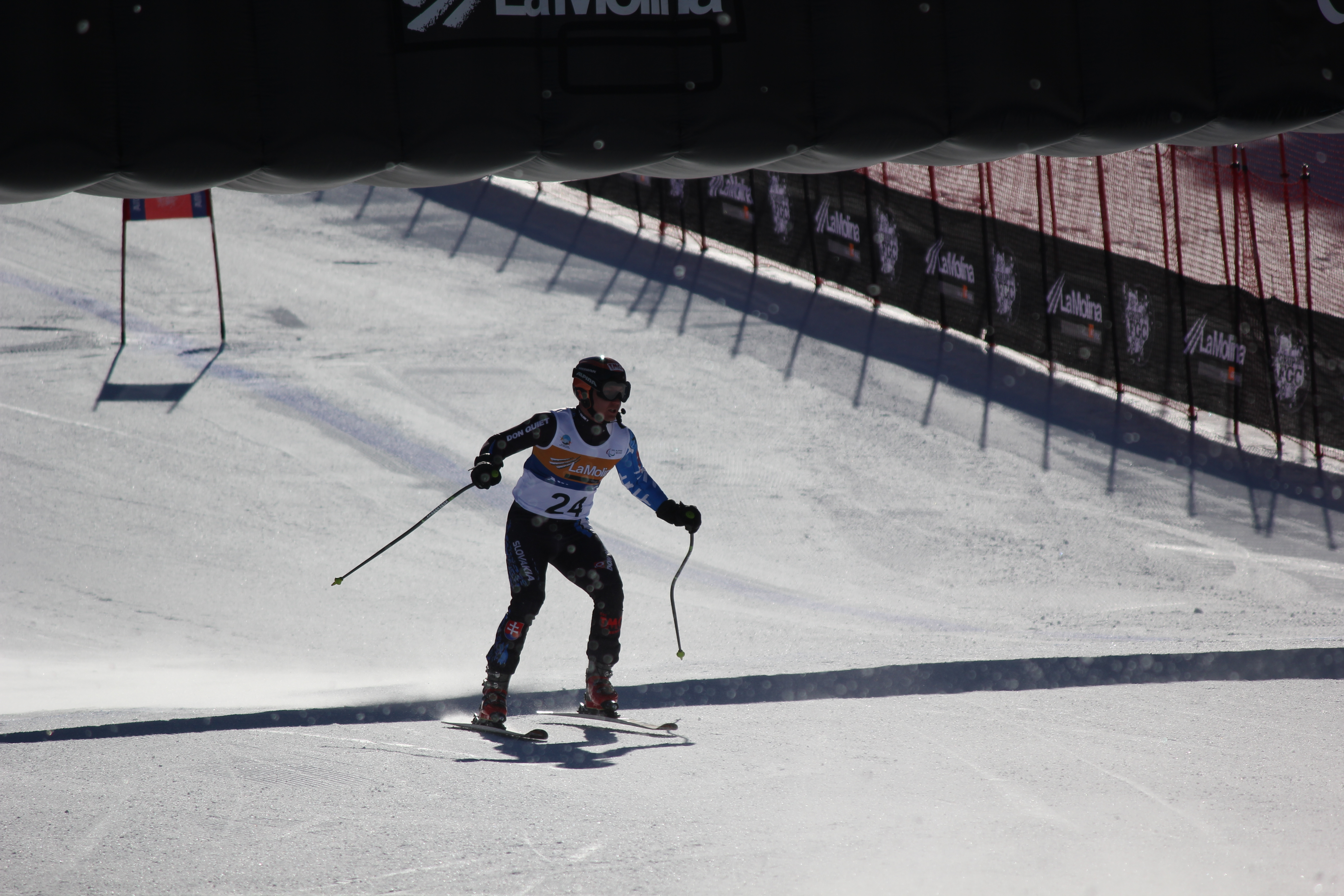 La Molina, Spain on the downhill competition day at the 2013 IPC Alpine World Championships. Men's visually impaired skierJakub Krako and guide Martin Motyka from Slovakia.